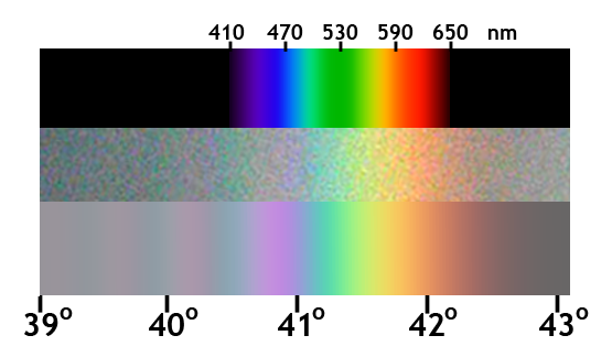 White light dispersed by a prism into the colors of the optical spectrum (above stripe) compared to a calculated rainbow (below) and its interference between rays of light following slightly different paths with slightly varying lengths within the raindrop (∅: 0.7mm). The middle stripe is from a real observation of a rainbow.